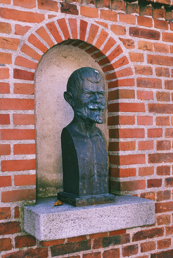 Buste of Gustav Wied in Roskilde, Denmark, created by Elise Brandes in 1908